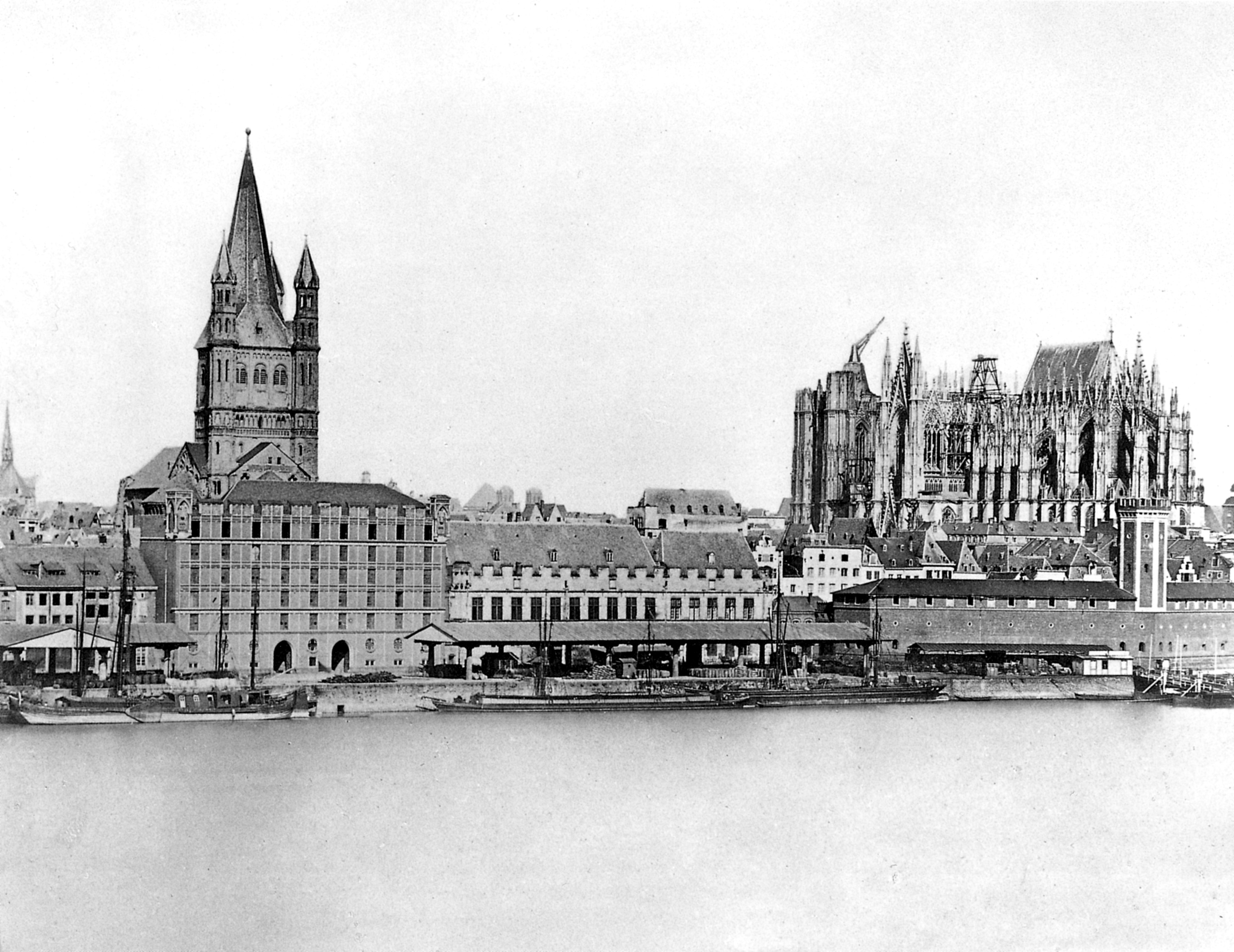 View from Deutz to Groß St. Martin and Cologne Cathedral, Cologne